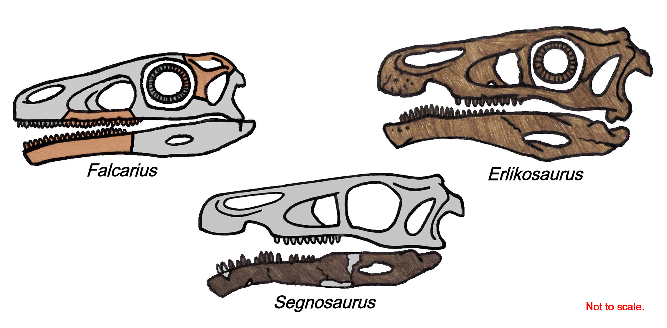 Skull remains of 3 different genera of the theropod dinosaur group Therizinosauroidea. To the left a skull of Falcaruis, found in Utah, USA. Known from many skeletons, dated to the early Aptian (Cretaceous, 125 MYA (see [2] and [3] for the original source). At the right side is the skull of Erlikosaurus, so far one of the best preserved skulls of any Therizinosaur. This animal is believed to walked the ground of Mongolia in the Turonian-stage, 90 MYA in the Cretaceous (see [4], [5], [6] and [7] for the original sources). At the bottom is the skull remains of Segnosaurus, found in Mongolia, also dated to the Turonian (see [8] and [9] for original sources).